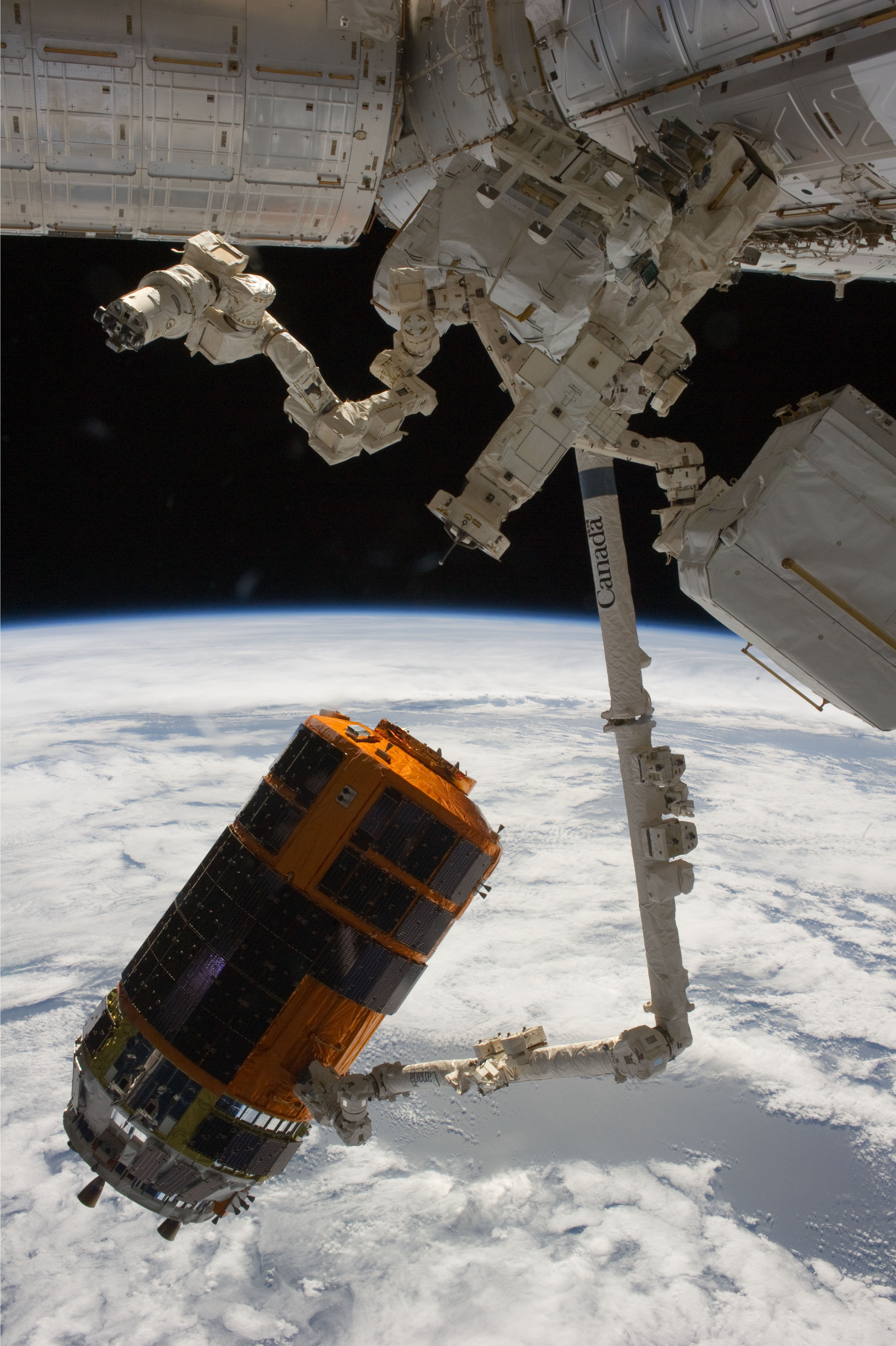 Backdropped by Earth's horizon and the blackness of space, the International Space Station's Canadarm2 unberths the unpiloted Japan Aerospace Exploration Agency's Kounotori2 H-II Transfer Vehicle (HTV2), filled with trash and unneeded items, in preparation for its release from the station. NASA astronaut Cady Coleman and European Space Agency astronaut Paolo Nespoli, both Expedition 27 flight engineers, used the station's robot arm to grapple the HTV2 and unberth it from the Earth-facing port of the Harmony node. The cargo craft was released at 11:46 a.m. (EDT) on March 28, 2011.